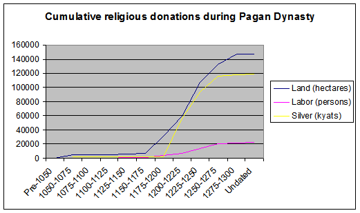 Cumulative Pagan era donations to religious establishments in 25-year periods Based on data source: Pagan: The Origins of Modern Burma, 1985, by Michael Aung-Thwin, p. 187, Table 1: Religious donations to the Sangha; University of Hawaii Press. 1 silver kyat=0.566 oz.